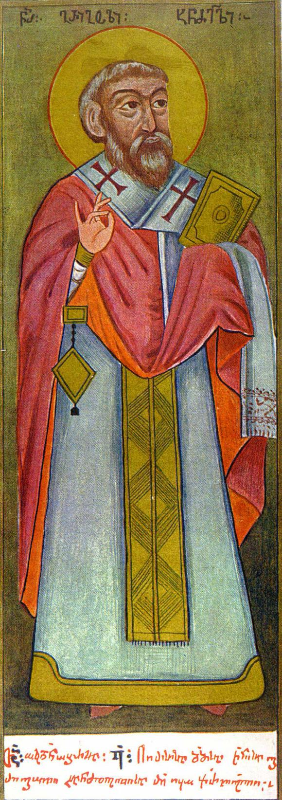 St. Grigol Khandzteli, a Georgian monk. A 18th century miniature.